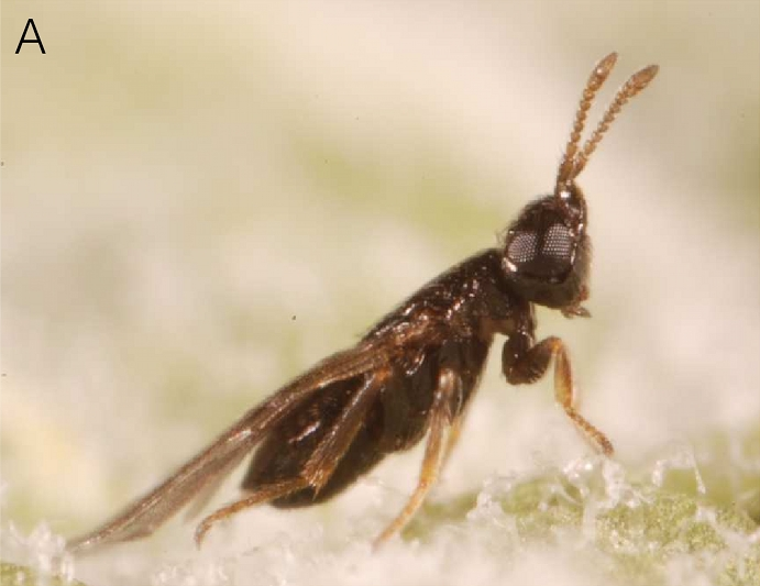 Ixodiphagus hookeri, female habitus, identified by the club-like tips of the antennae